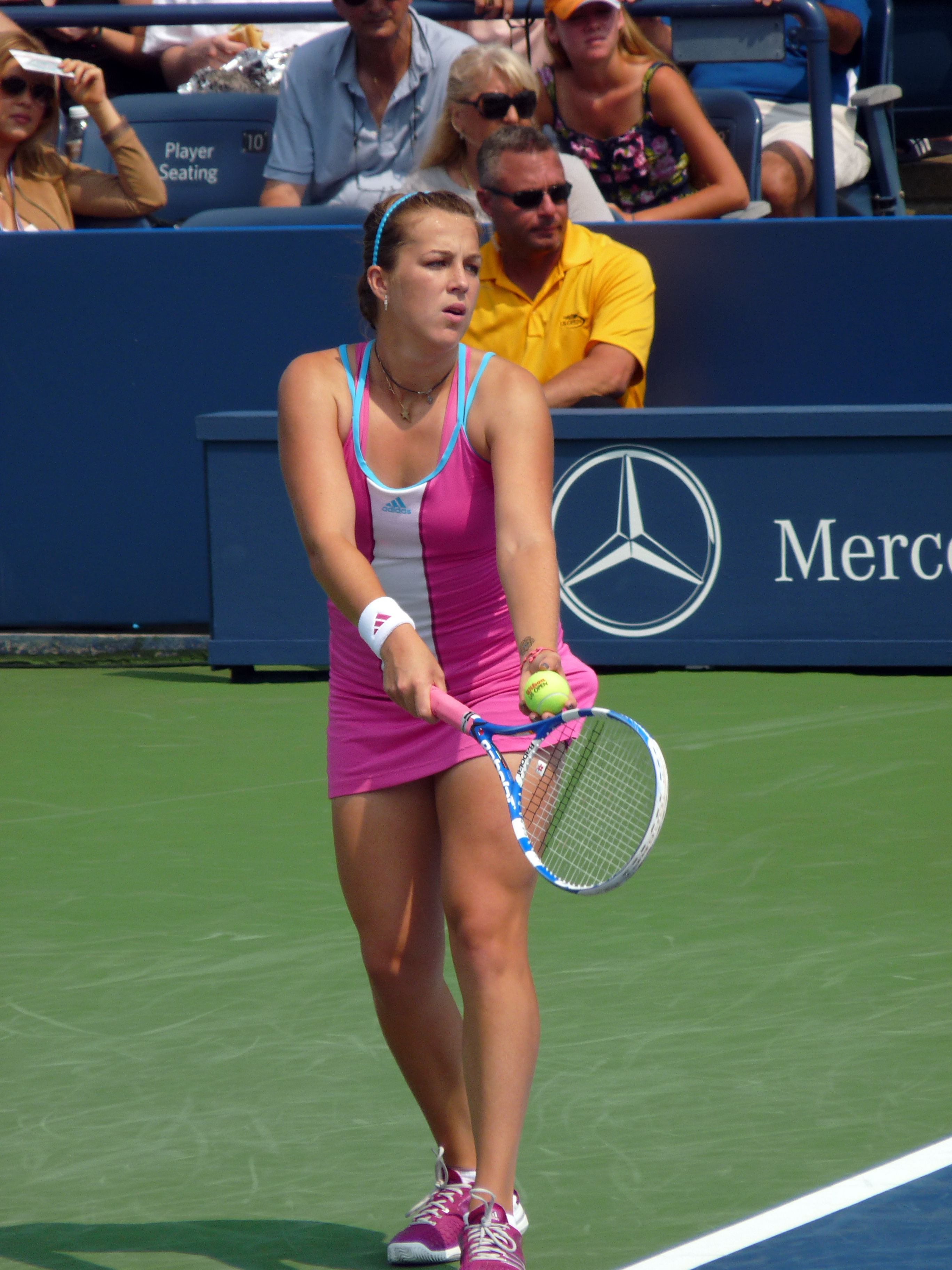 Anastasia Pavlyuchenkova [17] vs Jelena Janković [11] 6–4, 6–4, US Open 2011, 3rd Round